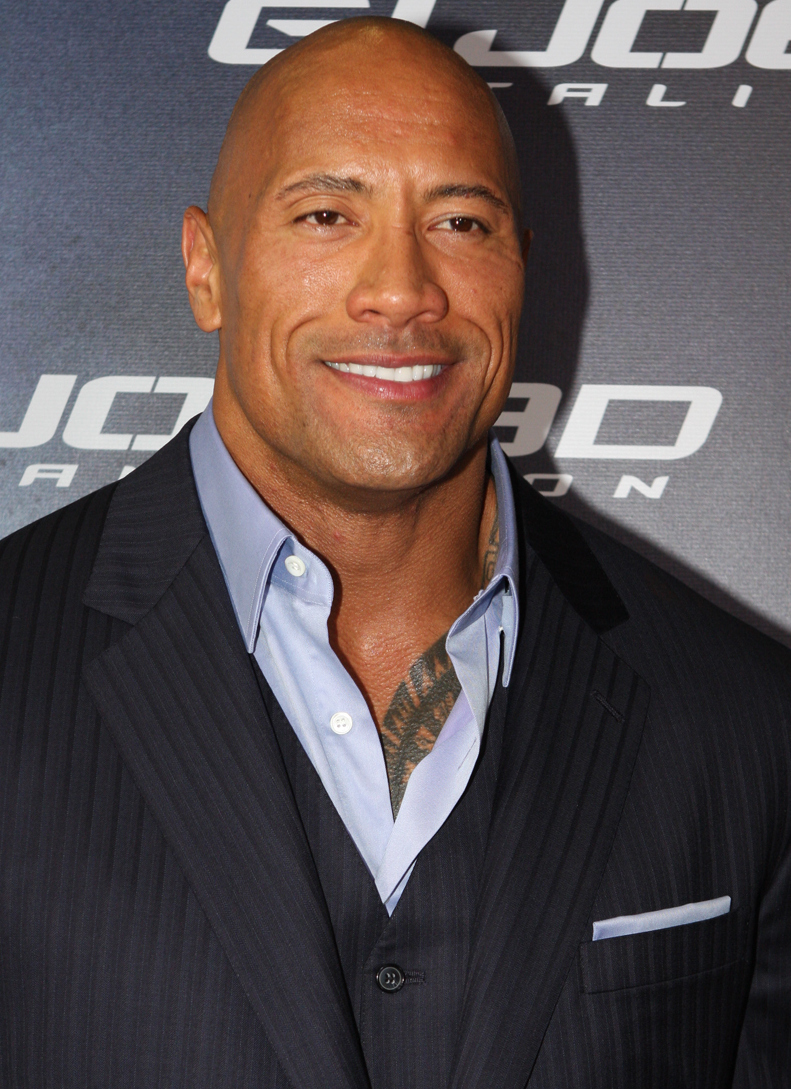 Dwayne Johnson at the G.I. JOE: RETALIATION - Red carpet movie premiere tonight, Event Cinemas, Sydney, Australia 2013.